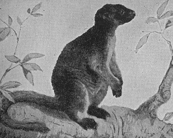 Tree kangaroo from The Book of Knowledge, The Grolier Society, 1911